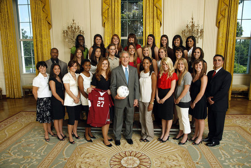 President George W. Bush stands with members of the University of Southern California Women's Soccer team, Tuesday, June 24, 2008, during a photo opportunity with the 2007 and 2008 NCAA Sports Champions.